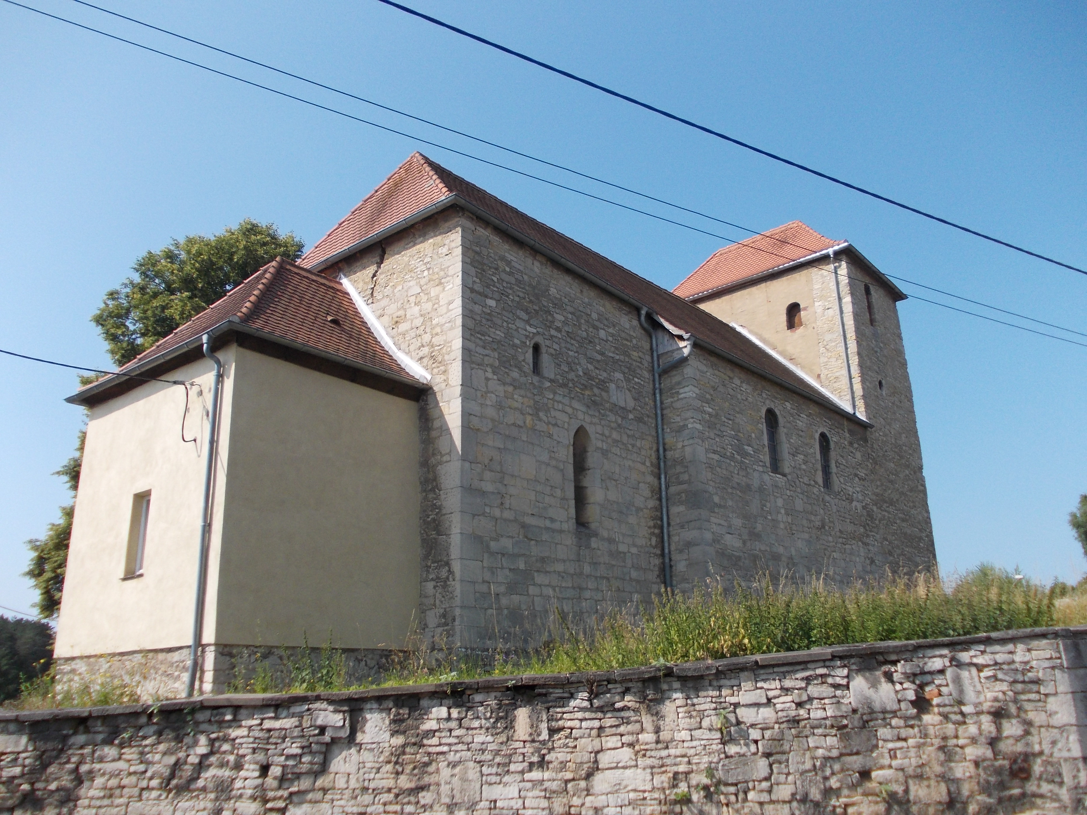 Branderoda church (Mücheln/Geiseltal, district: Saalekreis, Saxony-Anhalt)